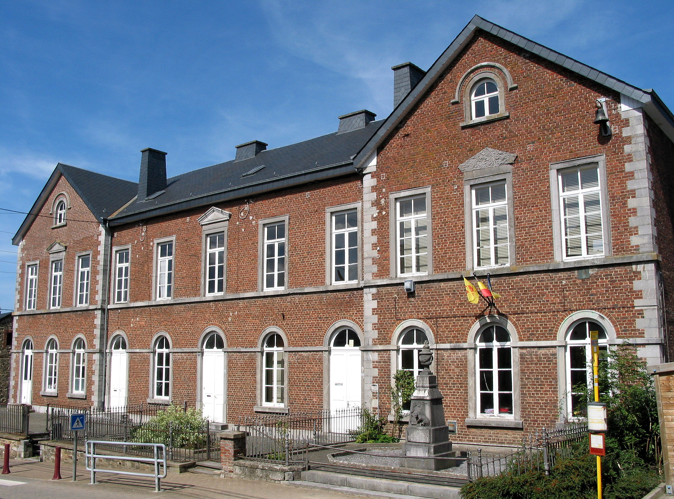 Awenne (Belgium), the previous town hall.